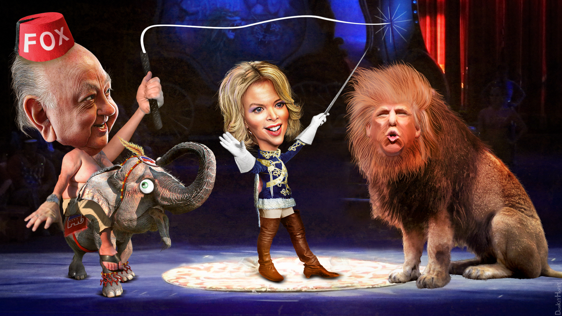 Roger Ailes cracks the whip for Donald Trump. This caricature of Roger Ailes was adapted from a photo in the public domain from the U.S. Army available via Wikimedia. This body was adapted from a Creative Commons licensed photo from Enrico's Flickr photostream. This caricature of an elephant was adapted from a Creative Commons licensed photo from Visnu Pitiyanuvath's Flickr photostream. The background was adapted from a Creative Commons licensed photo from John VanderHaagen's Flickr photostream. This caricature of Megyn Kelly was adapted from a photo in the public domain by Matt Gagnon from avaiblable via Wikimedia. The lion tamer body is adapted from a photo in the public domain by Photo Crafts Shop of Denver available via Wikimedia. The lion was adapted from a Creative Commons licensed photo from Charles Barilleaux's Flickr photostream. This face of Donald John Trump, Sr. was adapted from Creative Commons licensed images from [Gage%20Skidmore Gage Skidmore's flickr photostream].